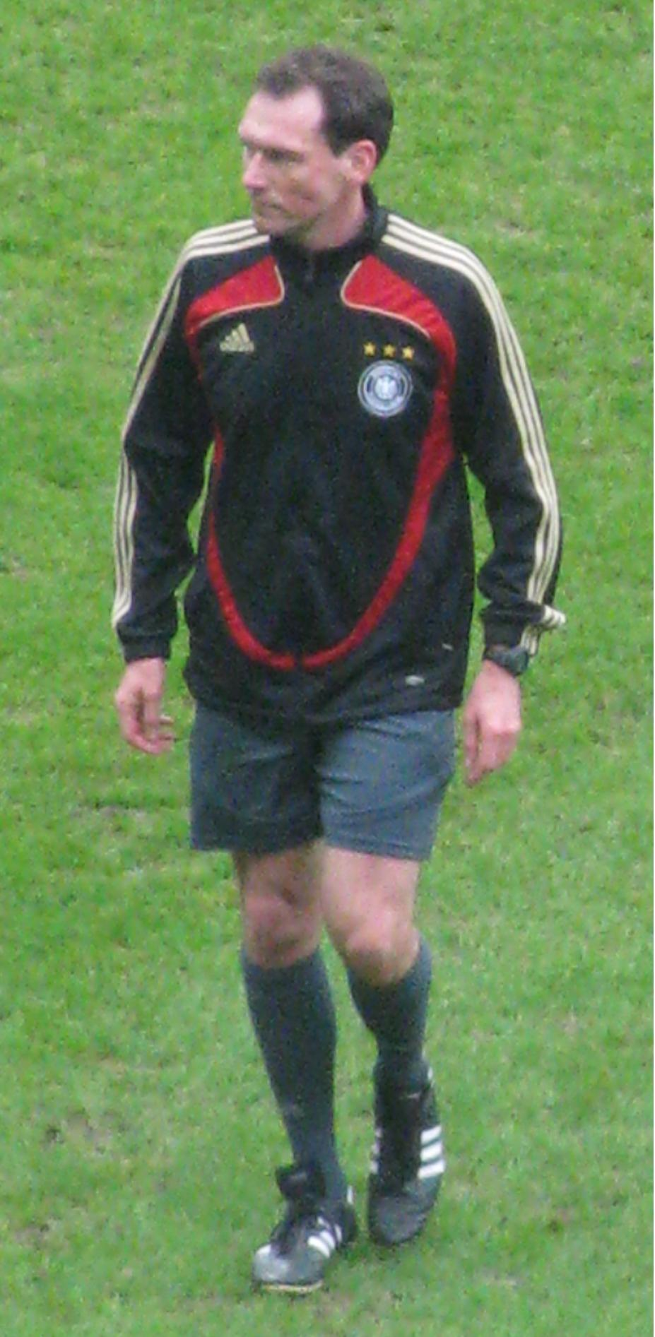 German football (soccer) referee Florian Meyer, at Frankfurt-Schalke 04